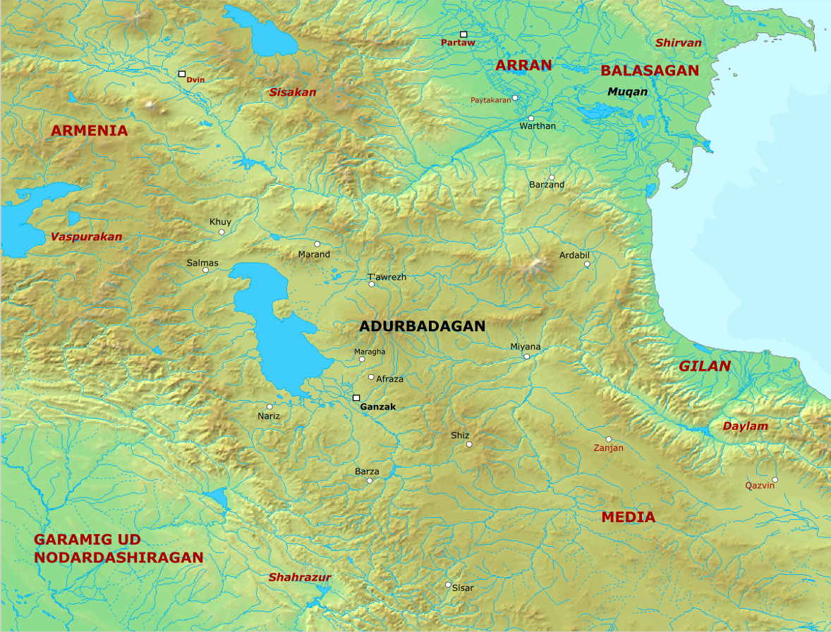 Map of Adurbadagan and its surroundings during the Sasanian era. Map taken from DEMIS Mapserver, which is public domain, the rest is self-made.